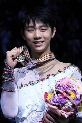 Yuzuru Hanyu during the men's medals ceremony at the 2014 World Championships. He won the gold medal at this competition.